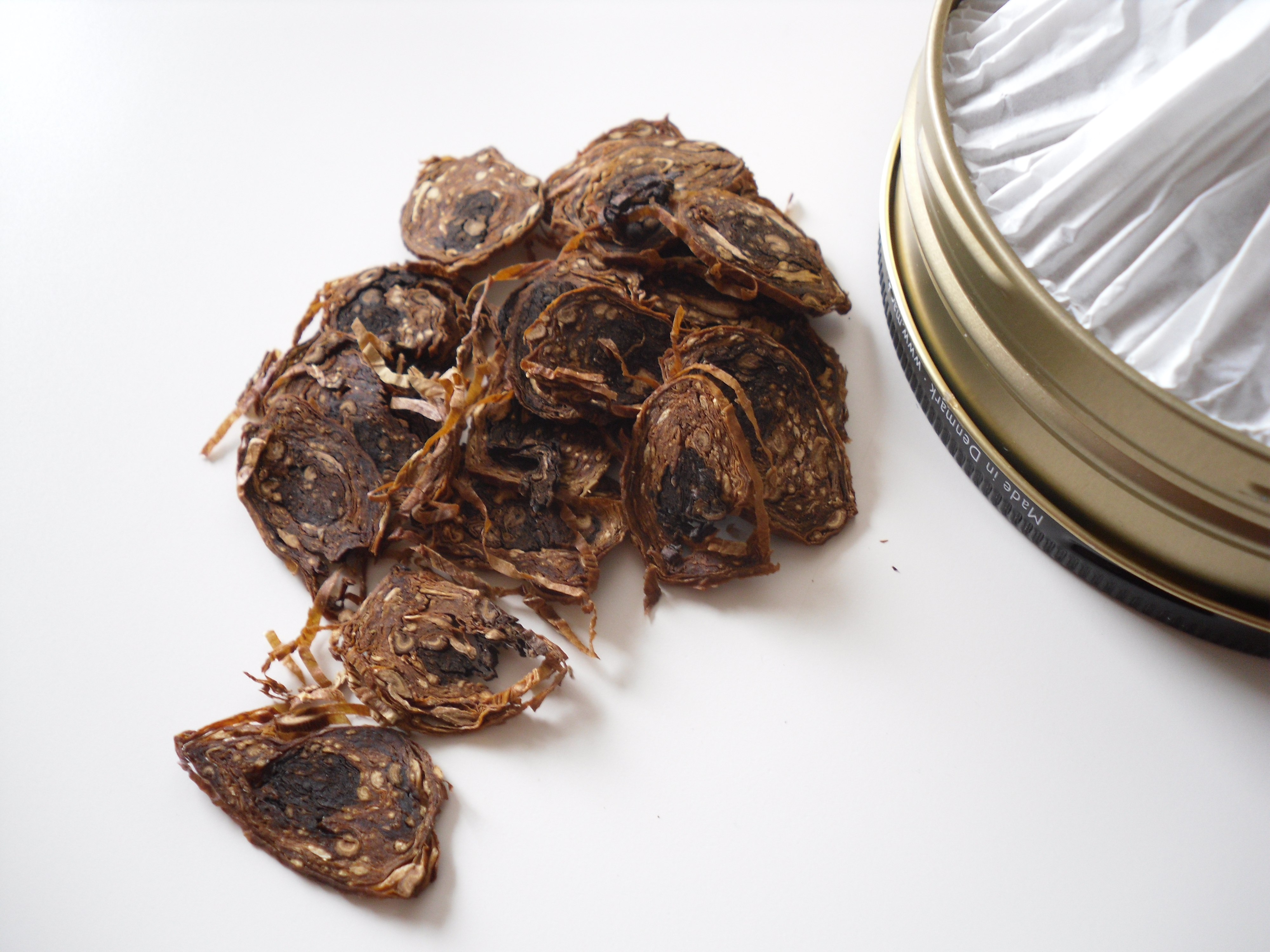 Mac Baren Club Blend